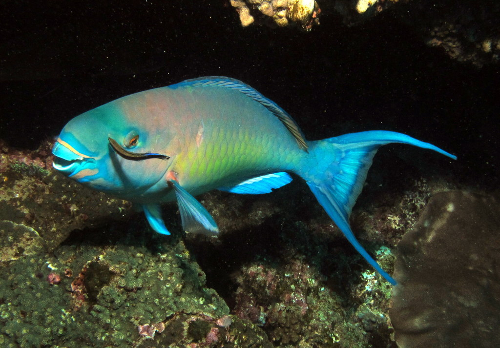 Ember parrotfish, Scarus rubroviolaceus - terminal phase